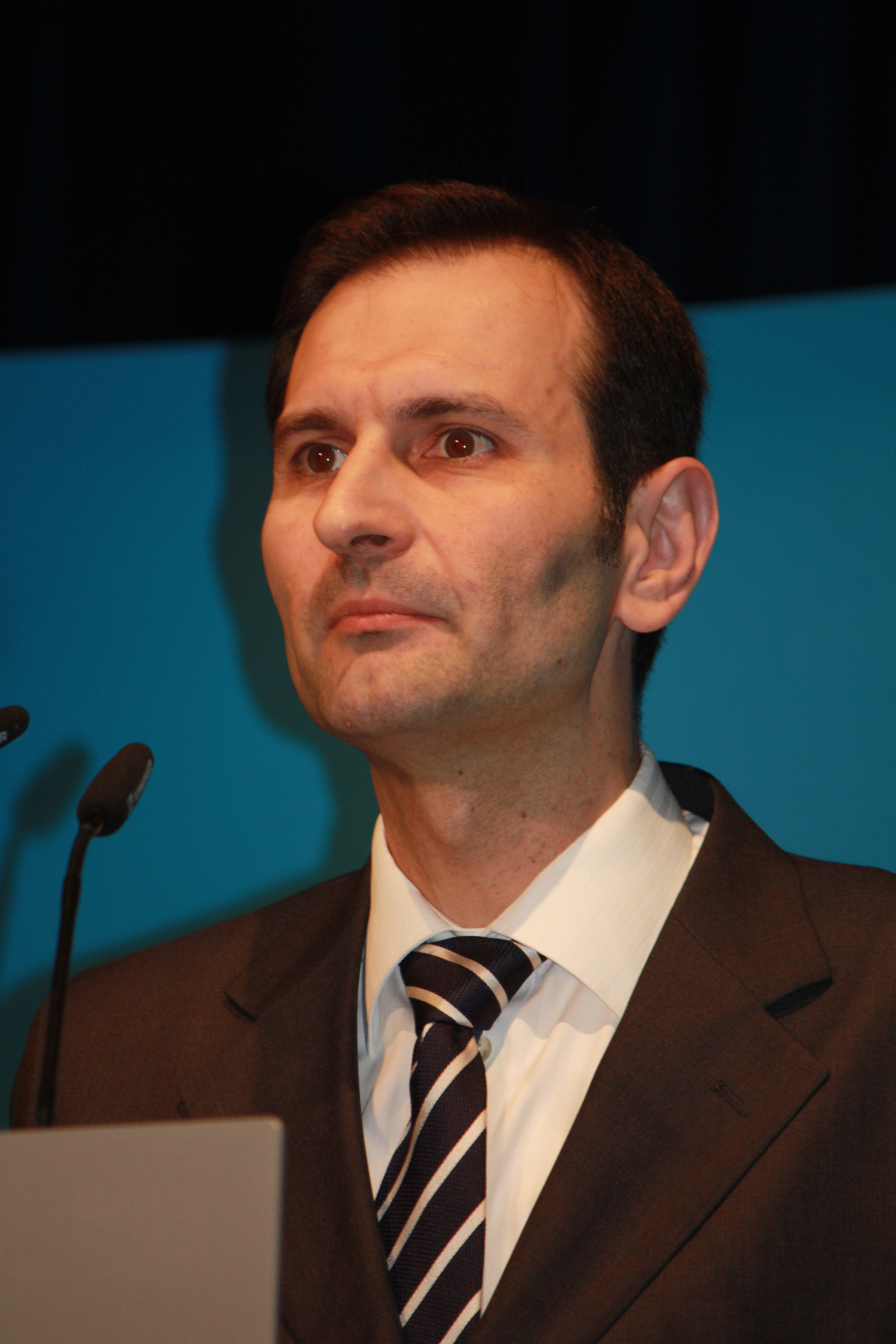 Miro Kovač, ambassador of Coratia to Germany